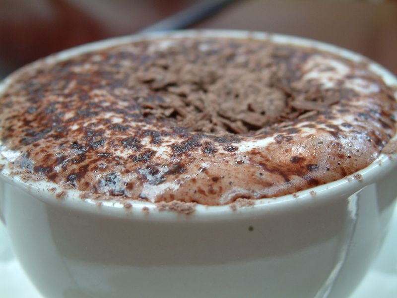 Decadent hot chocolate at Hahndorf's in Surrey Hills, served with a complimentary handmade truffle in their covered, heated courtyard at the back. Perfect for chasing away the Winter blues! As reviewed in The Age, Epicure.